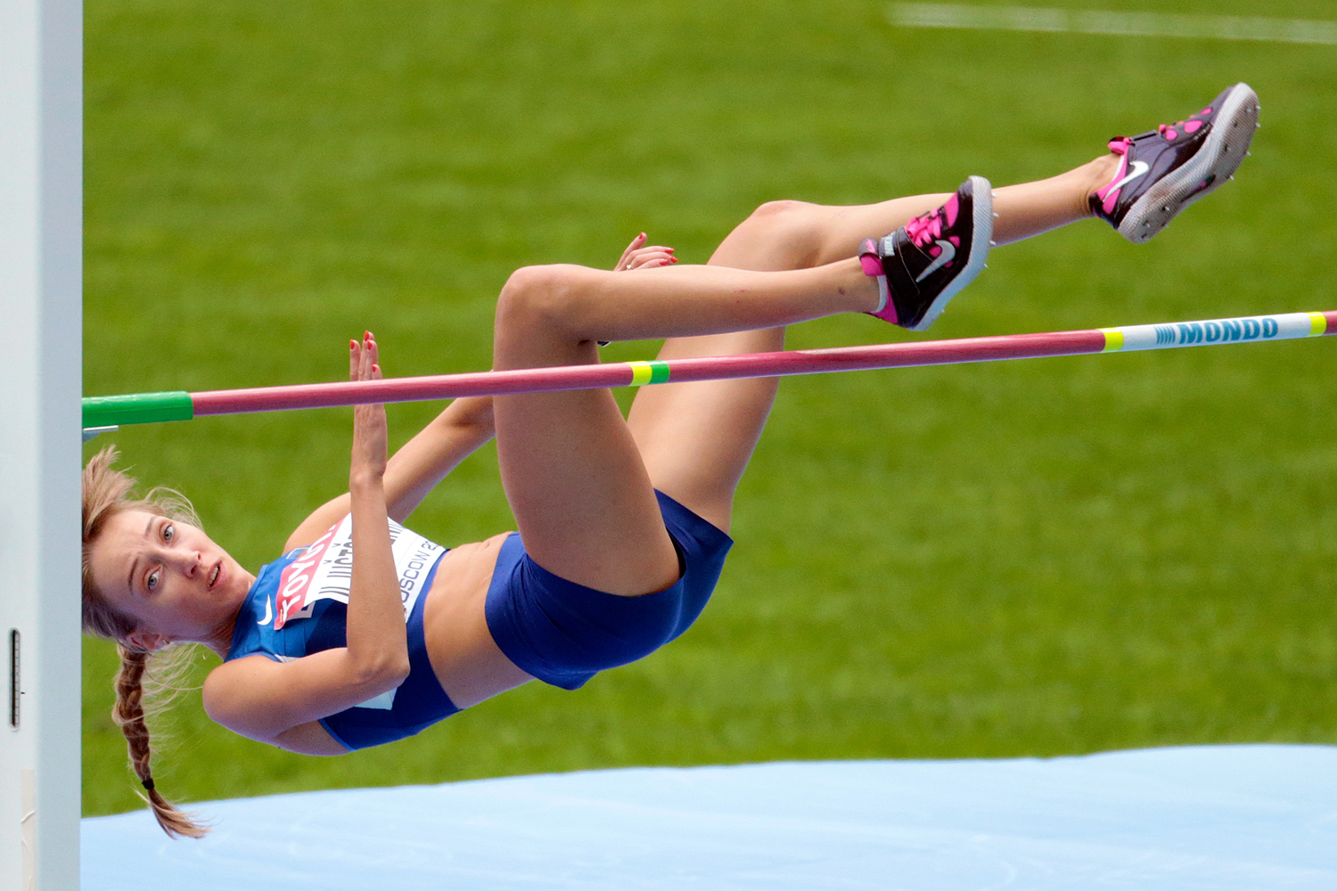 Anna Iljustsenko on 14th IAAF World Championships in Athletics